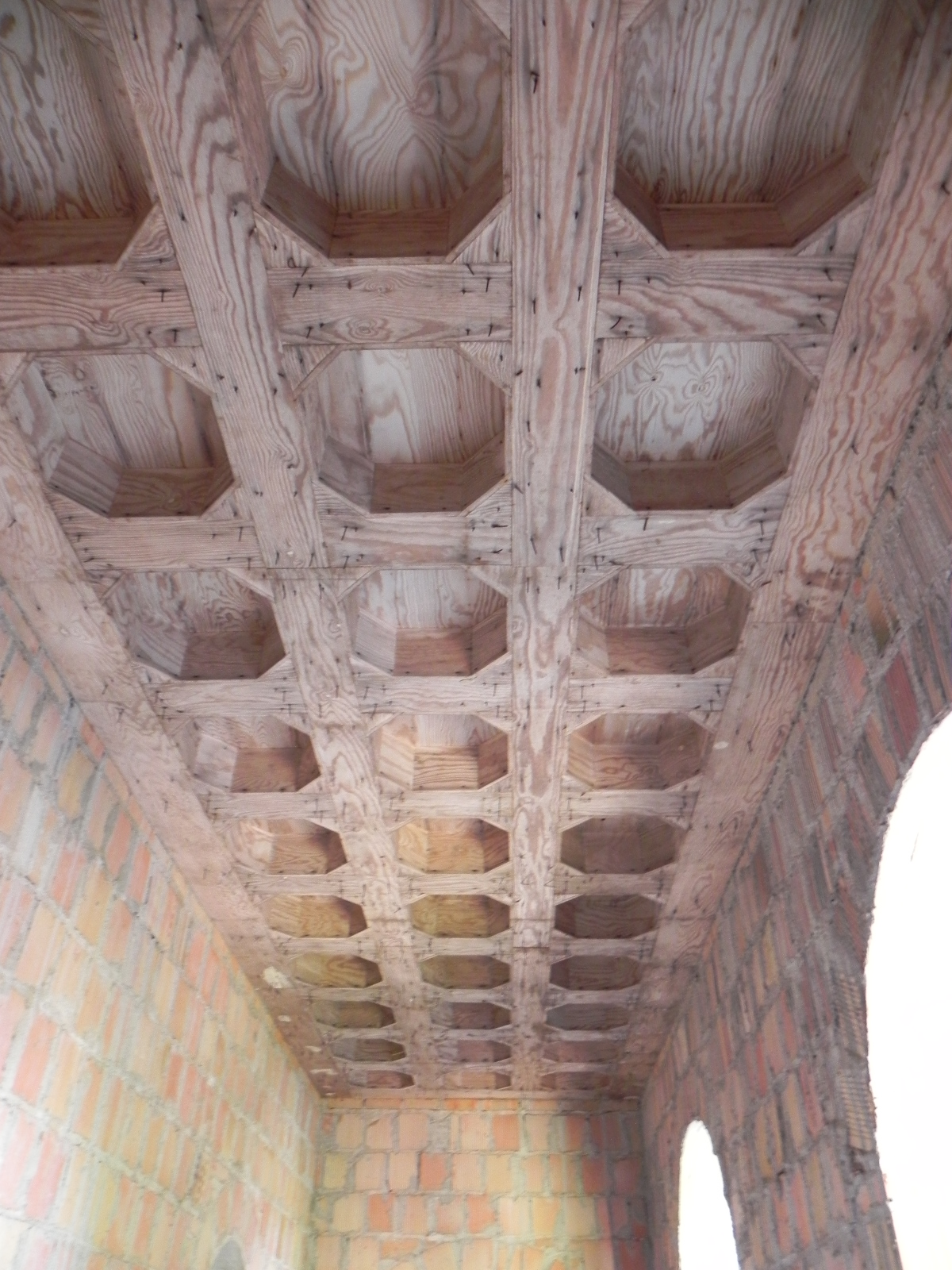 Castle in Łapalice